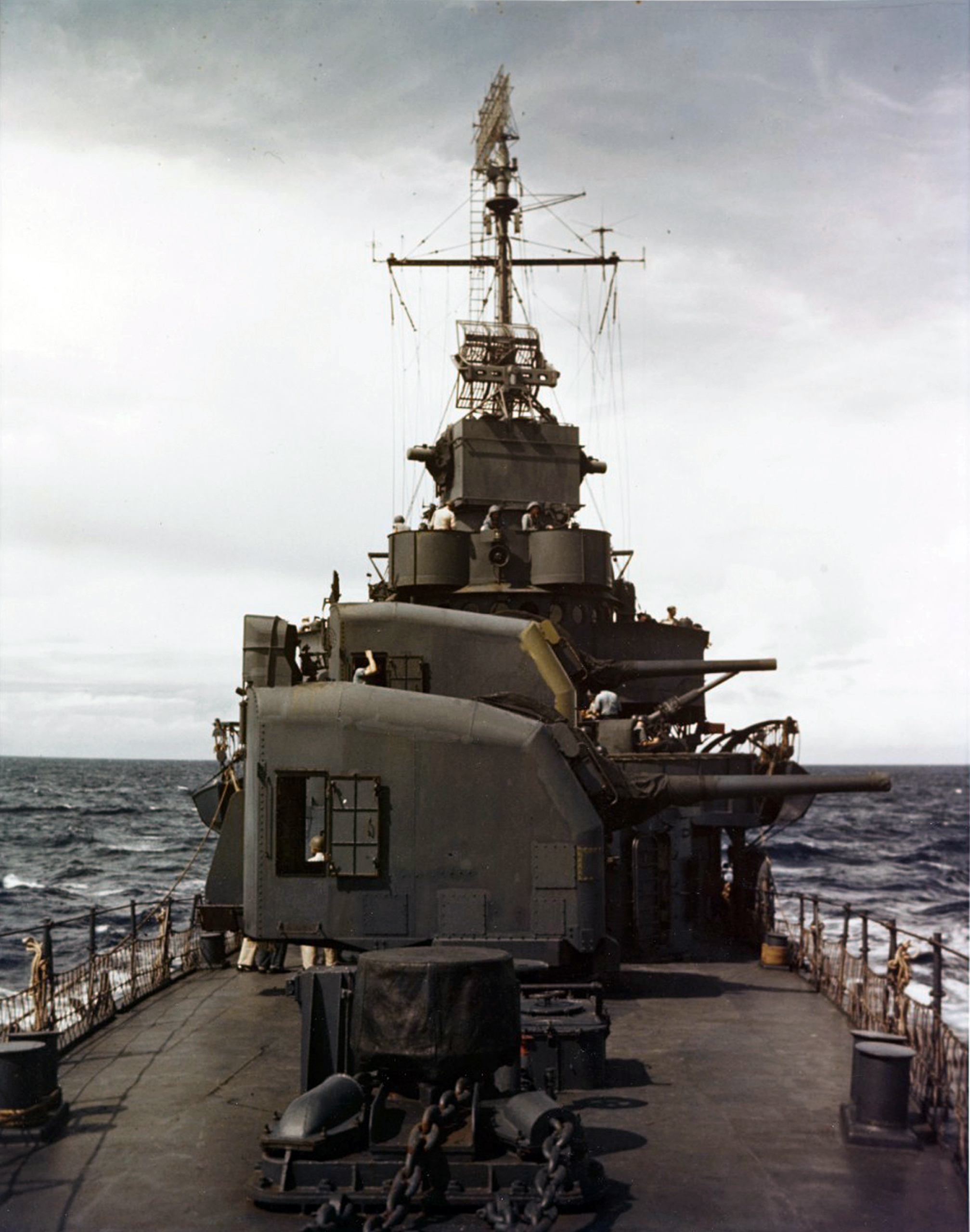 Front view of A & B-turrets of USS Halford (DD-480).